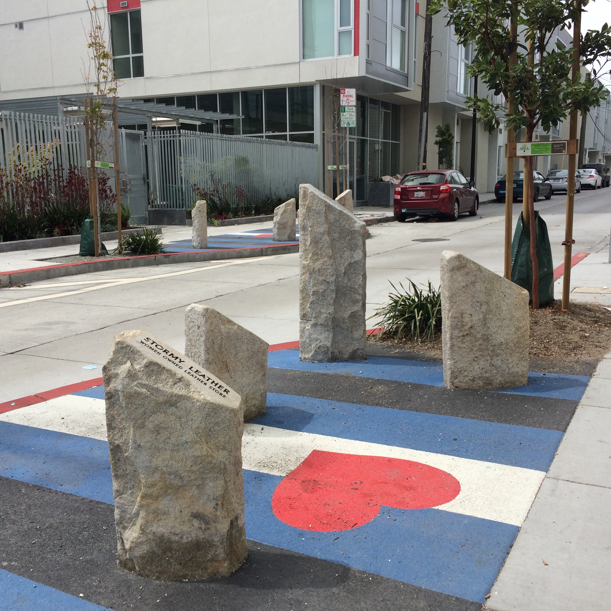 This is part of the San Francisco South of Market Leather History Alley on Ringold Street, an art installation and monument celebrating the history and culture of this area.